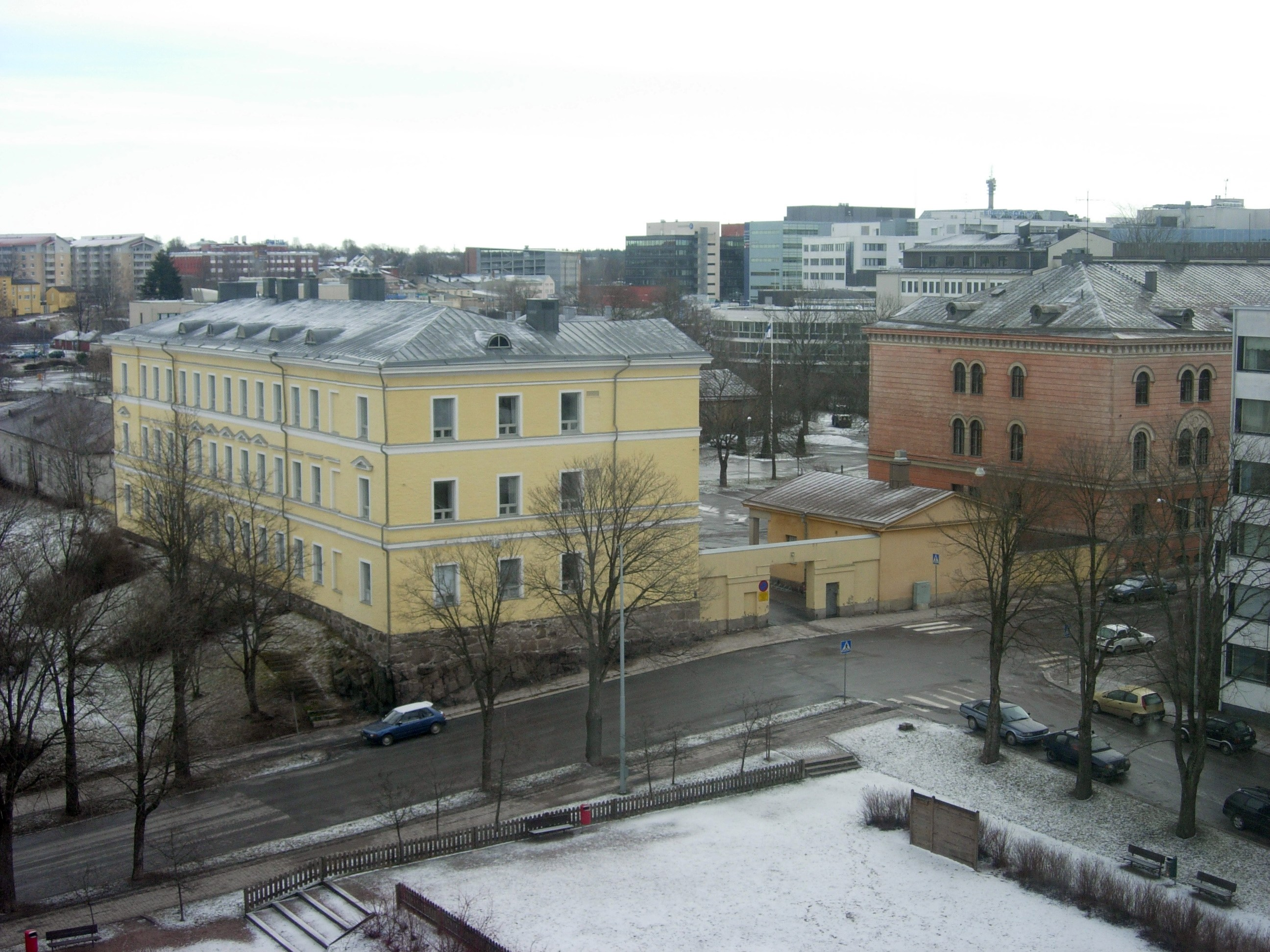 The old Sirkkala Barracks in Turku. Now part of Turku University. On the left is the barracks designed by Gylich in 1834 and on the right by A.H. Dahlström in 1870.